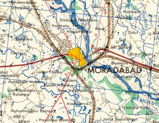 Map of Moradabad (1955); Cropped from this file.